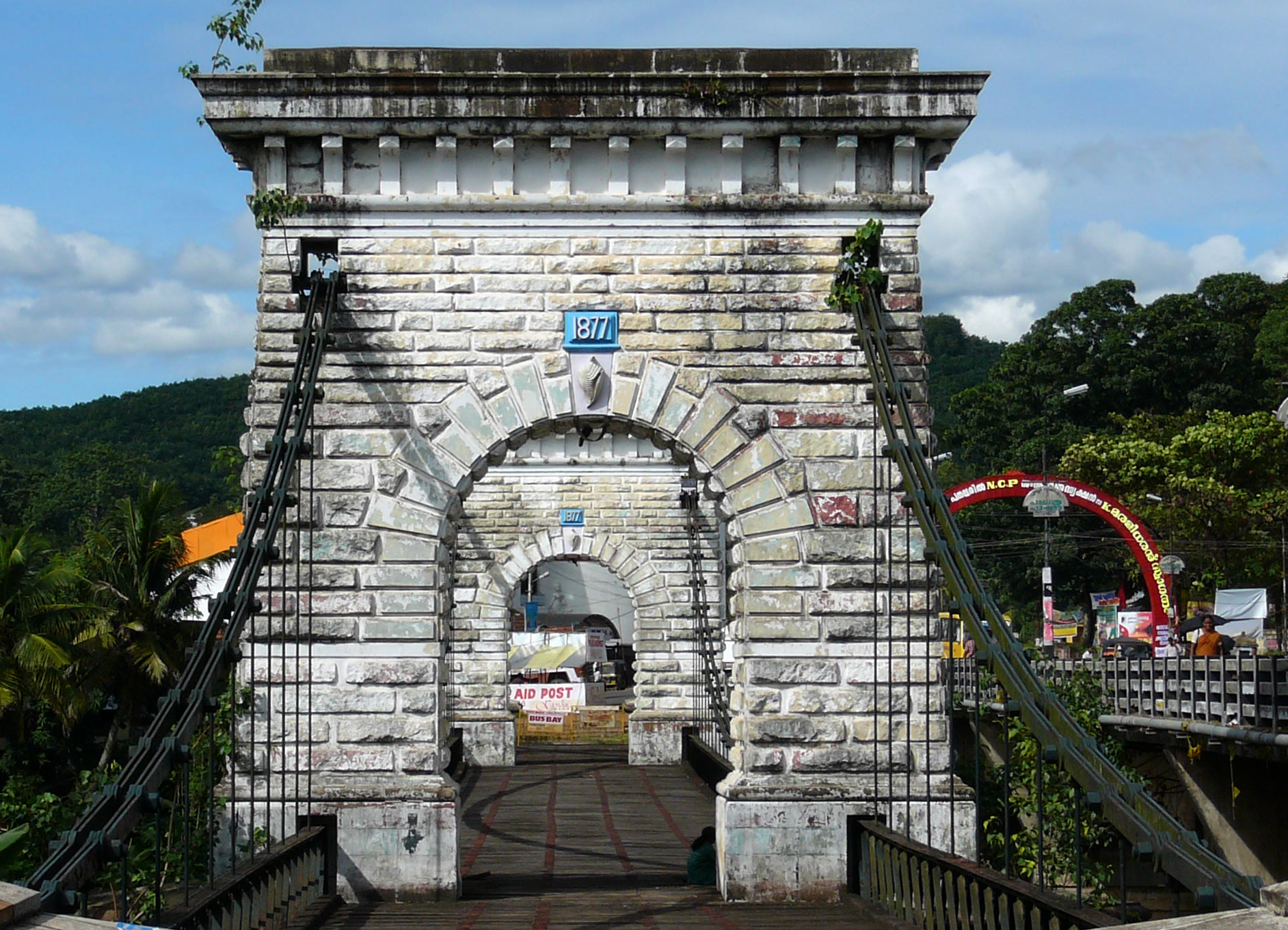 Hanging bridge punalur